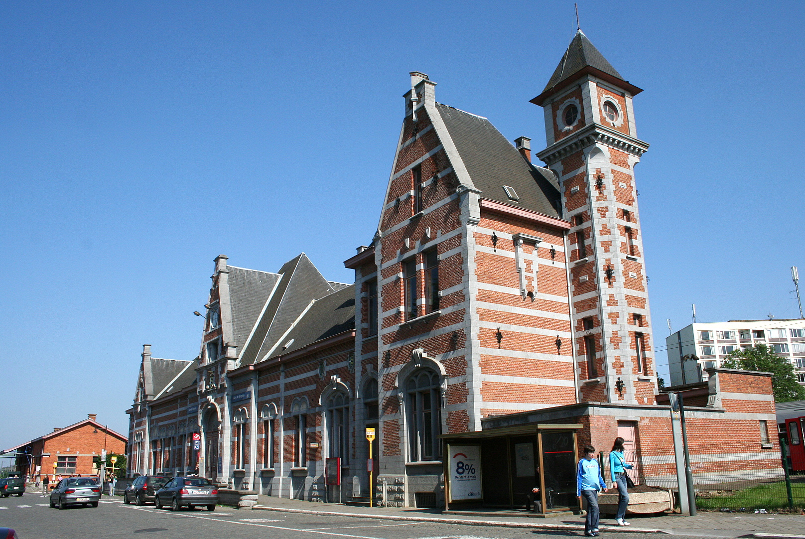 Soignies (Belgium), rue de la Station, 96. – The train station (1891) – Architect: Gédéon Bordiau.